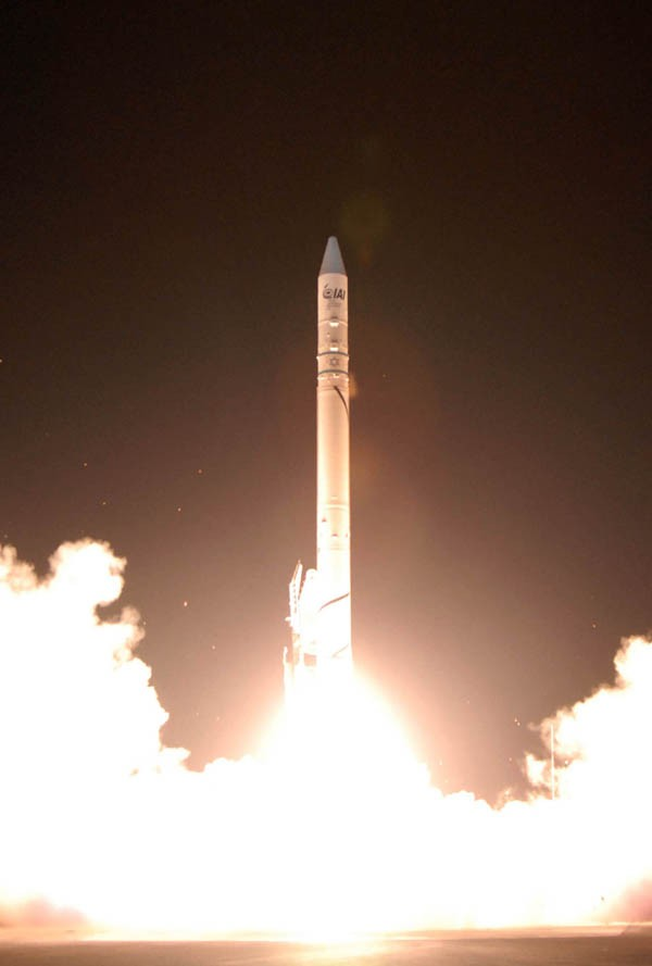 Shavit